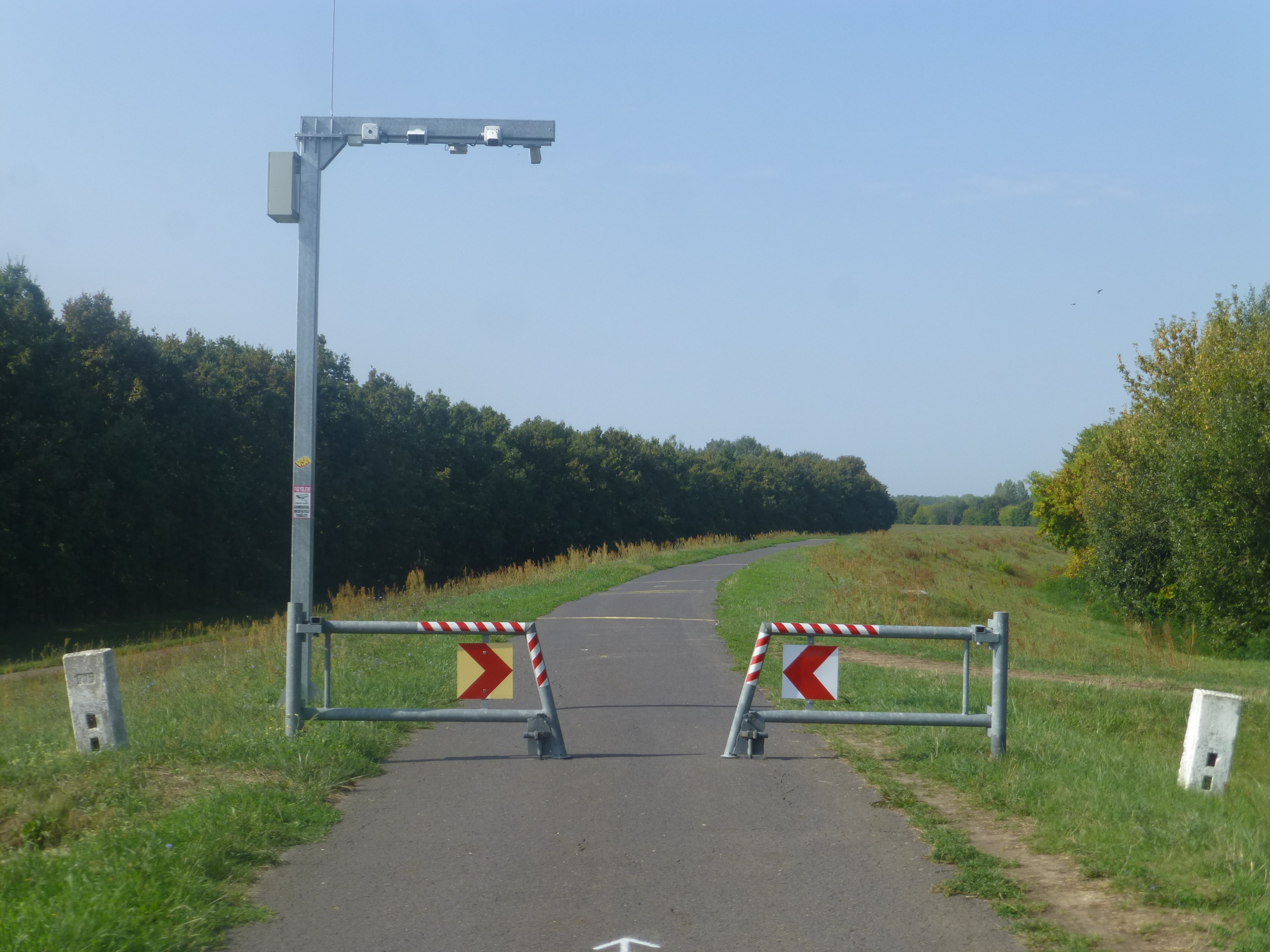 Tisza Cycleway (EuroVelo-11), in outskirts of Abádszalók, Hungary. The equipment on the column is a security camera against the nonlegal usage of the road by car drivers, (and a cyclist counter machine).